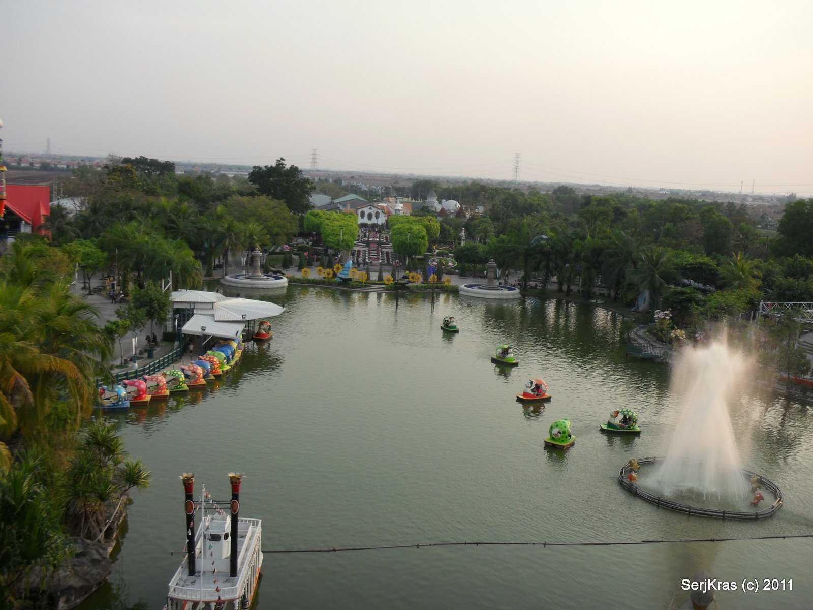 Bang Yitho, Thanyaburi District, Pathum Thani, Thailand